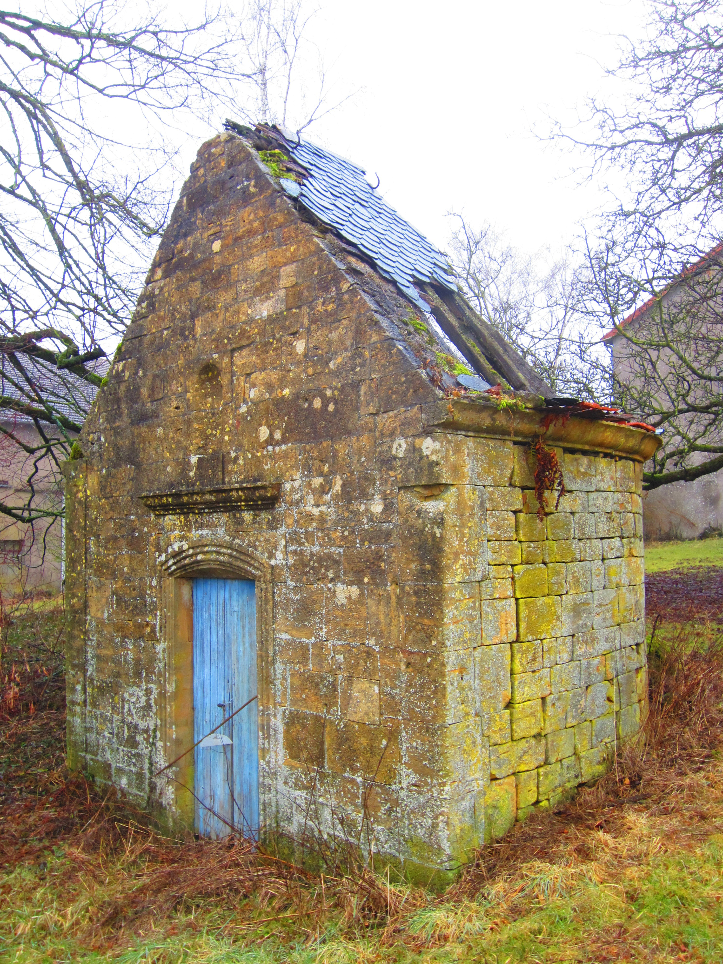 chapel Praucourt Ugny